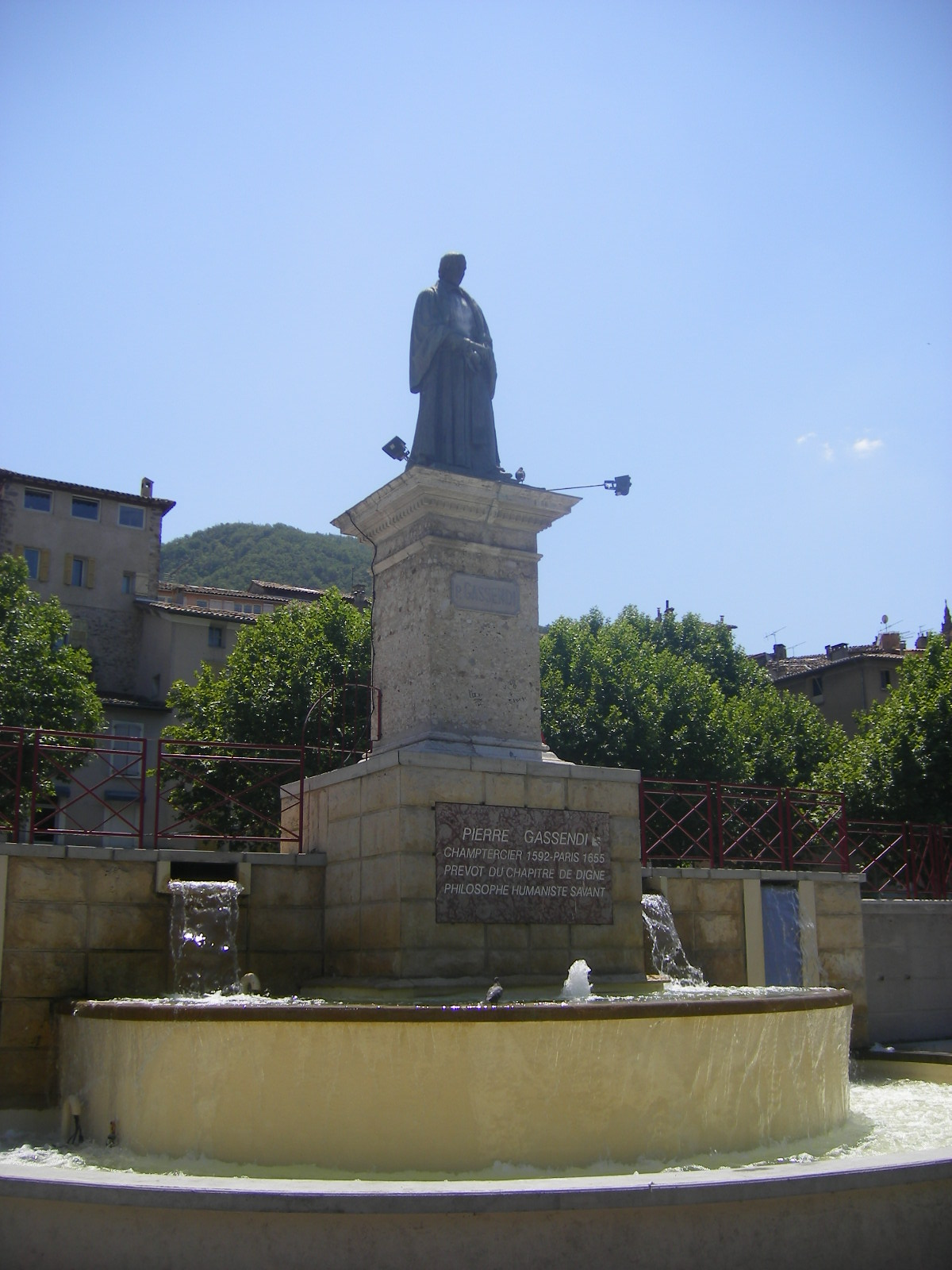 Digne-monument of Pierre Gassendi